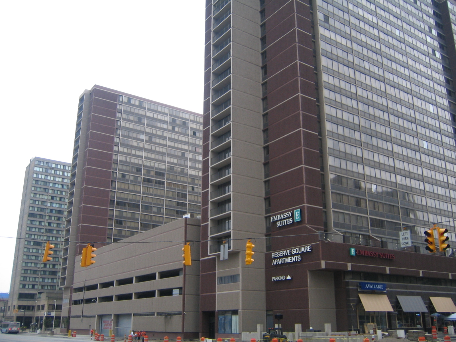 Reserve Square Apartments, Downtown Cleveland.